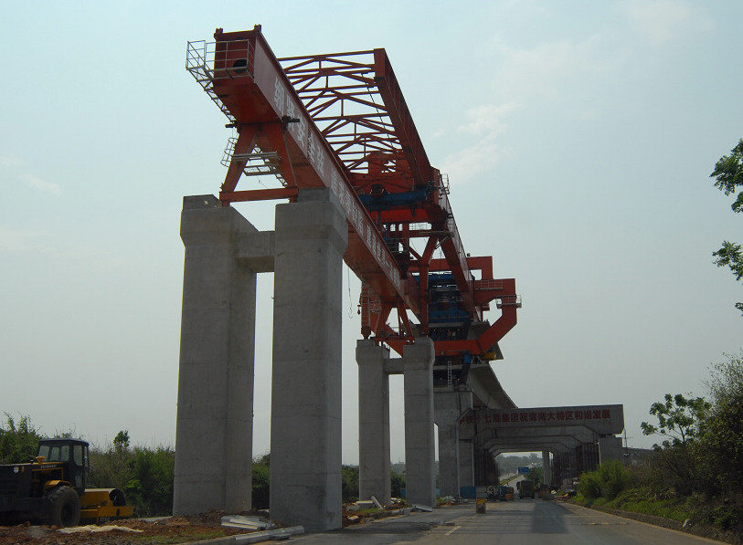 Hainan East Ring Intercity Rail during construction in Haikou, Hainan, China